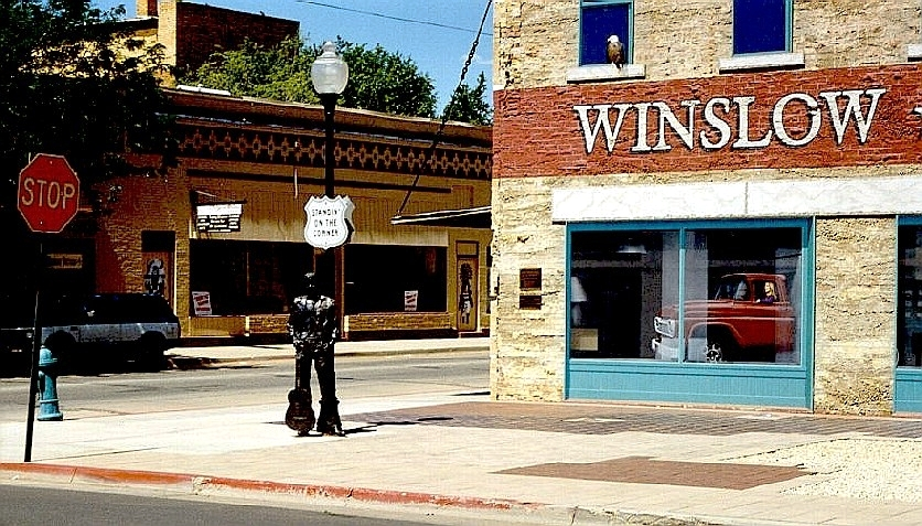 Mural commemorating Jackson Browne's song "Take It Easy", as made popular by the band The Eagles, in Winslow, Arizona at 2nd & Kinsley.